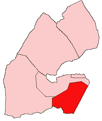 Map of the Djibouti showing Ali Sabieh Region